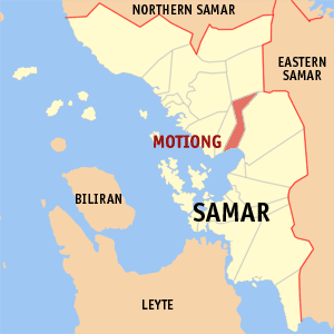 Map of Samar showing the location of Motiong